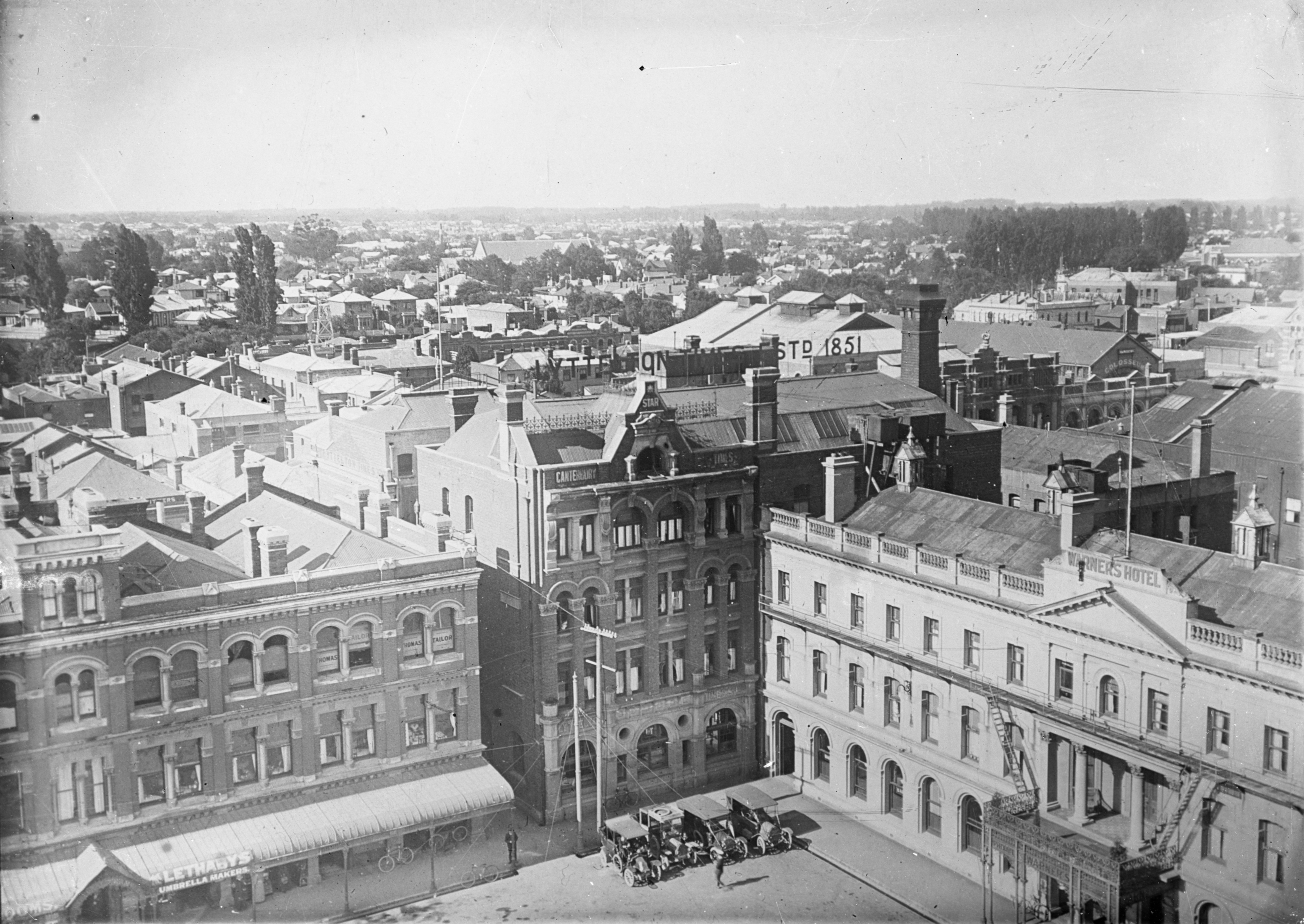 Warner's Hotel, Cathedral Square, Christchurch, with cars parked outside. On the left is the Lyttelton Times Company Ltd building. Photograph taken by William A Price ca 1910.